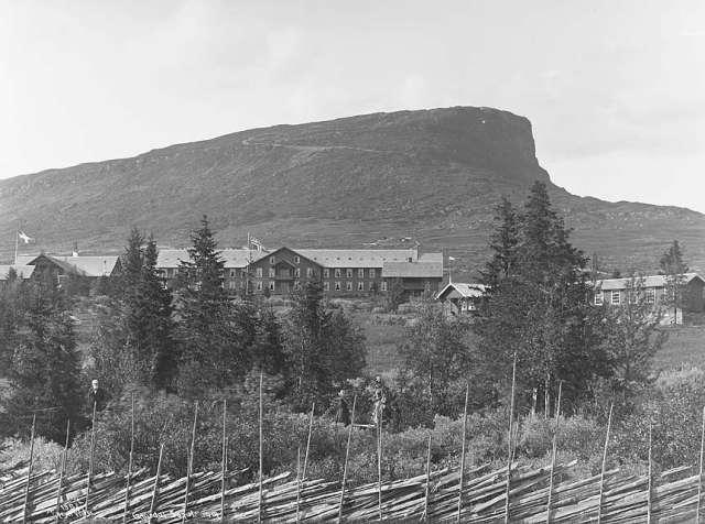 Gausdal sanatorium in front of Skeikampen